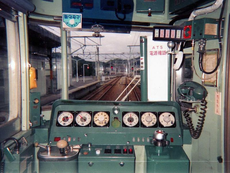 East Japan Railway Co.,EMU type E415 Cockpit